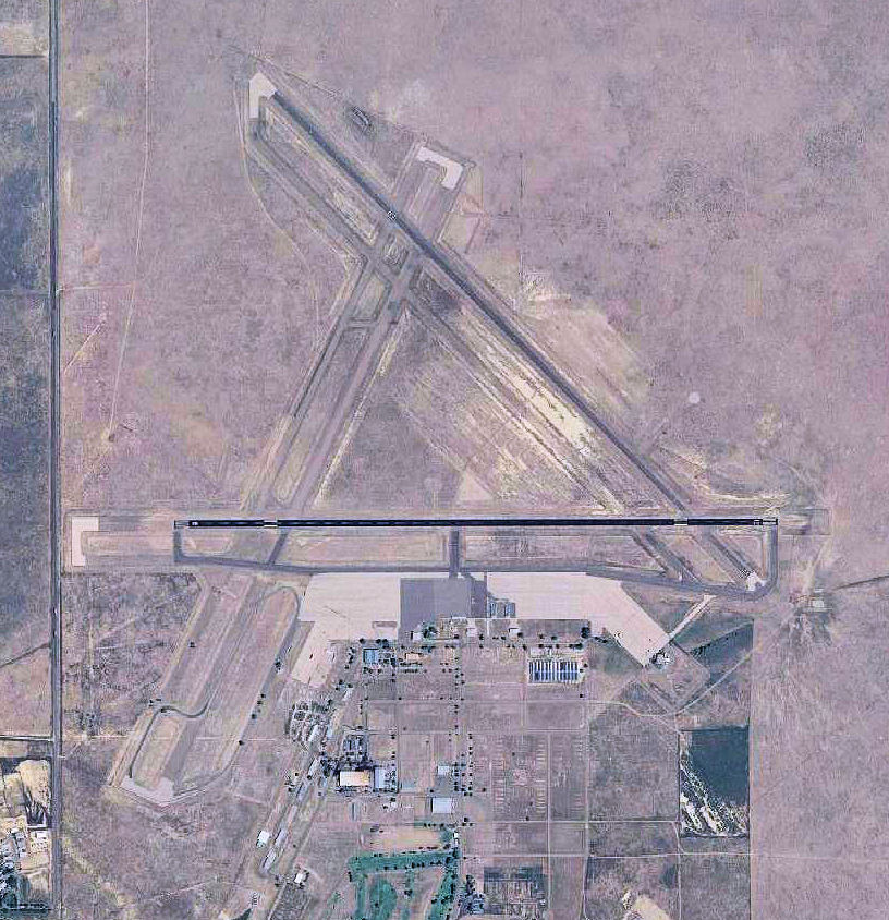 USGS digital orthophoto of La Junta Municipal Airport in Colorado